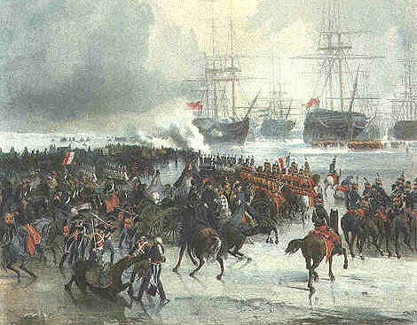 Painting of Charles Louis Mozin (1806-1862), depicting the icebound Dutch fleet defeated and captured by French cavalry (1795)